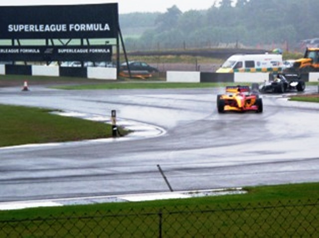 Galatasaray SK Racing Team Car on circuit